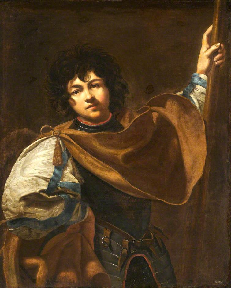 Saint William of Aquitaine by Simon Vouet (1590–1649)